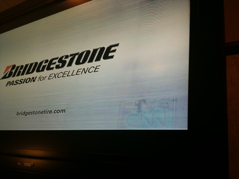 An example of extreme screen burn-in on an Emerson branded LCD television at a McDonald's restaurant in Sheboygan. The circa 2008 iteration of CNN's digital on-screen graphic logo, along with the live tag and elements within that box are easily visible and burned into the screen.